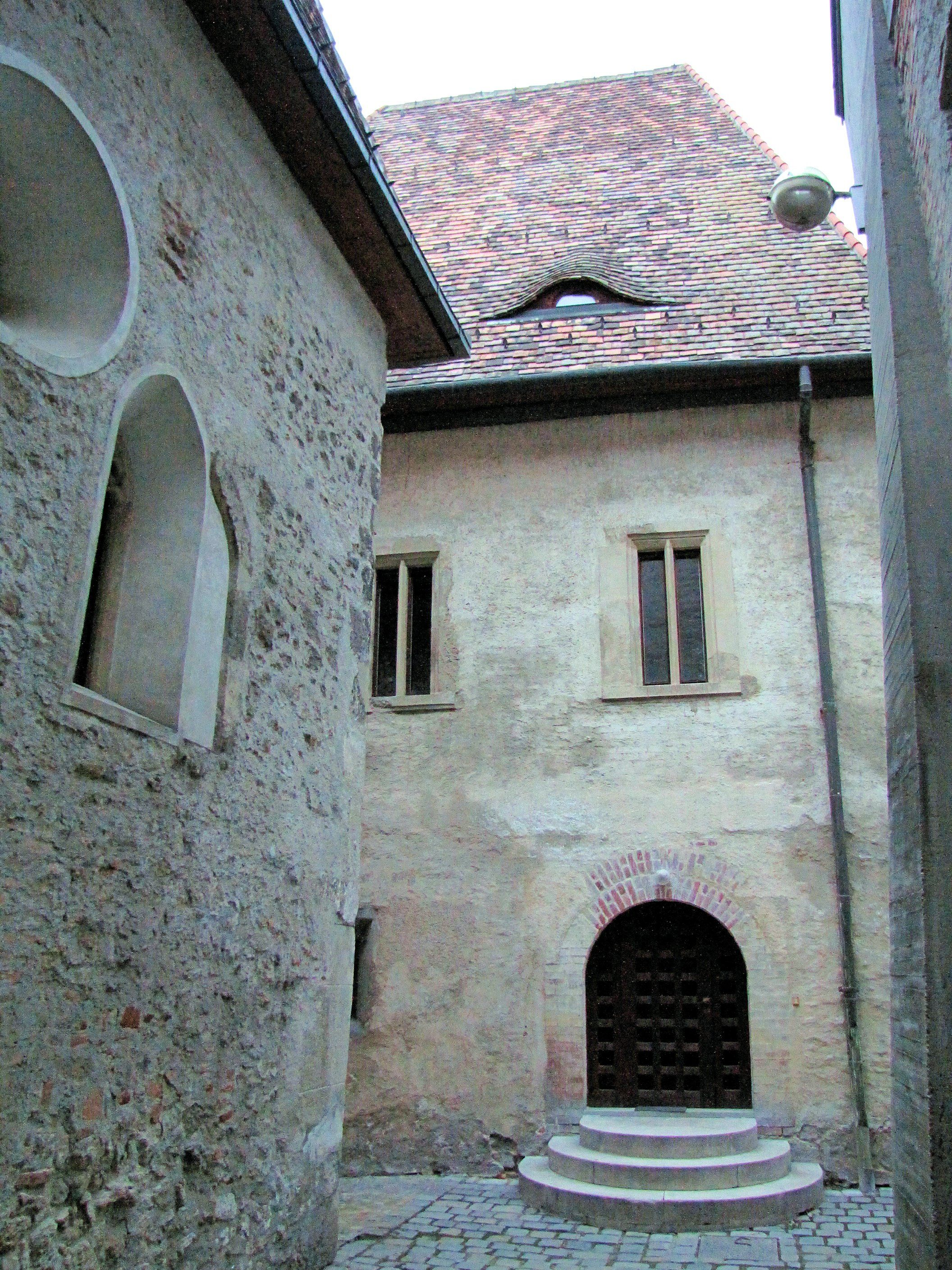 Sopron, the private medieval synagogue (not the Old Synagogue) with a medieval tower.